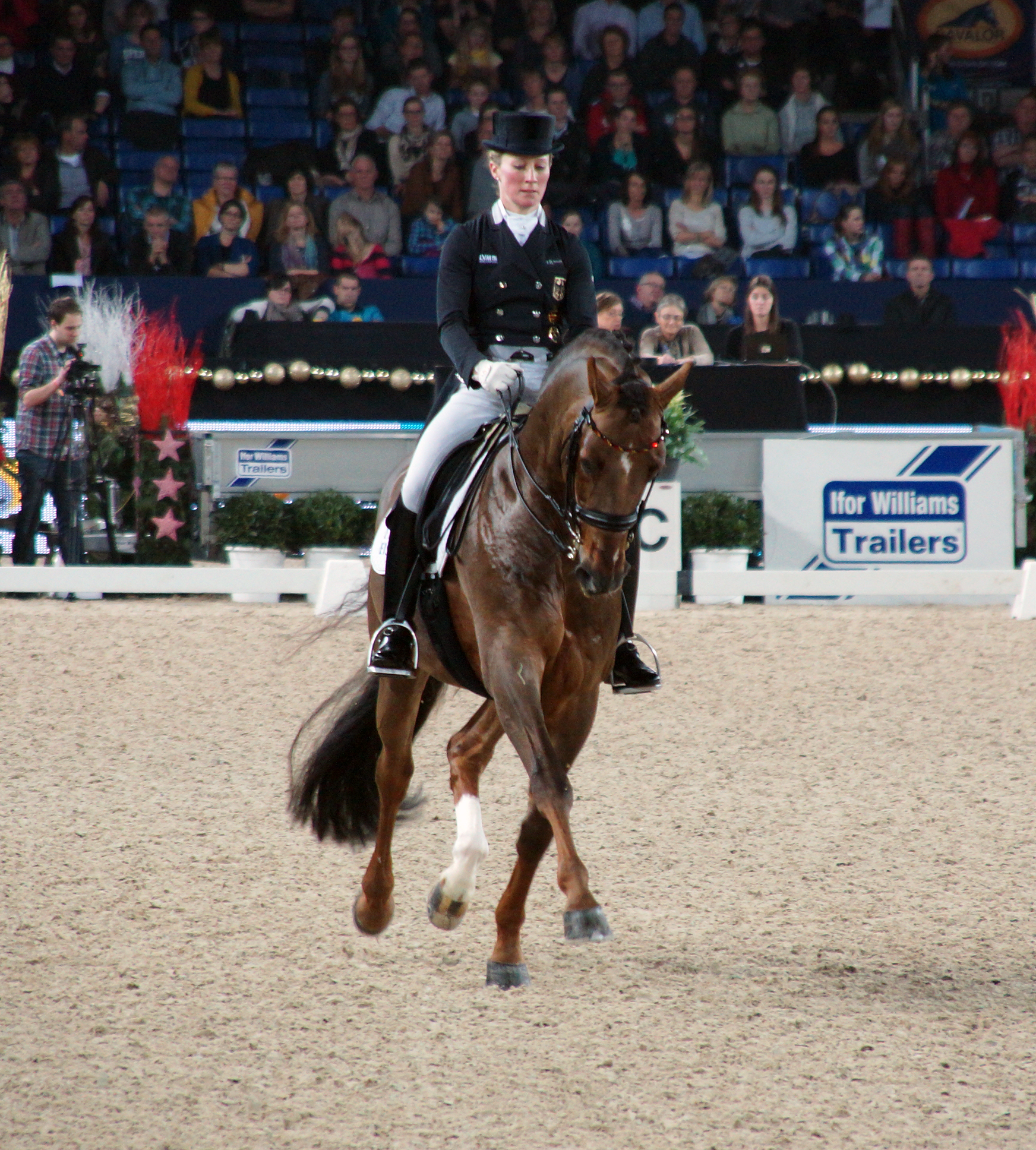 CDI 5* World Dressage Masters at 2013 Vlaanderens Kerstjumping - Jumping Mechelen: Helen Langehanenberg and Damon Hill NRW at Grand Prix Freestyle